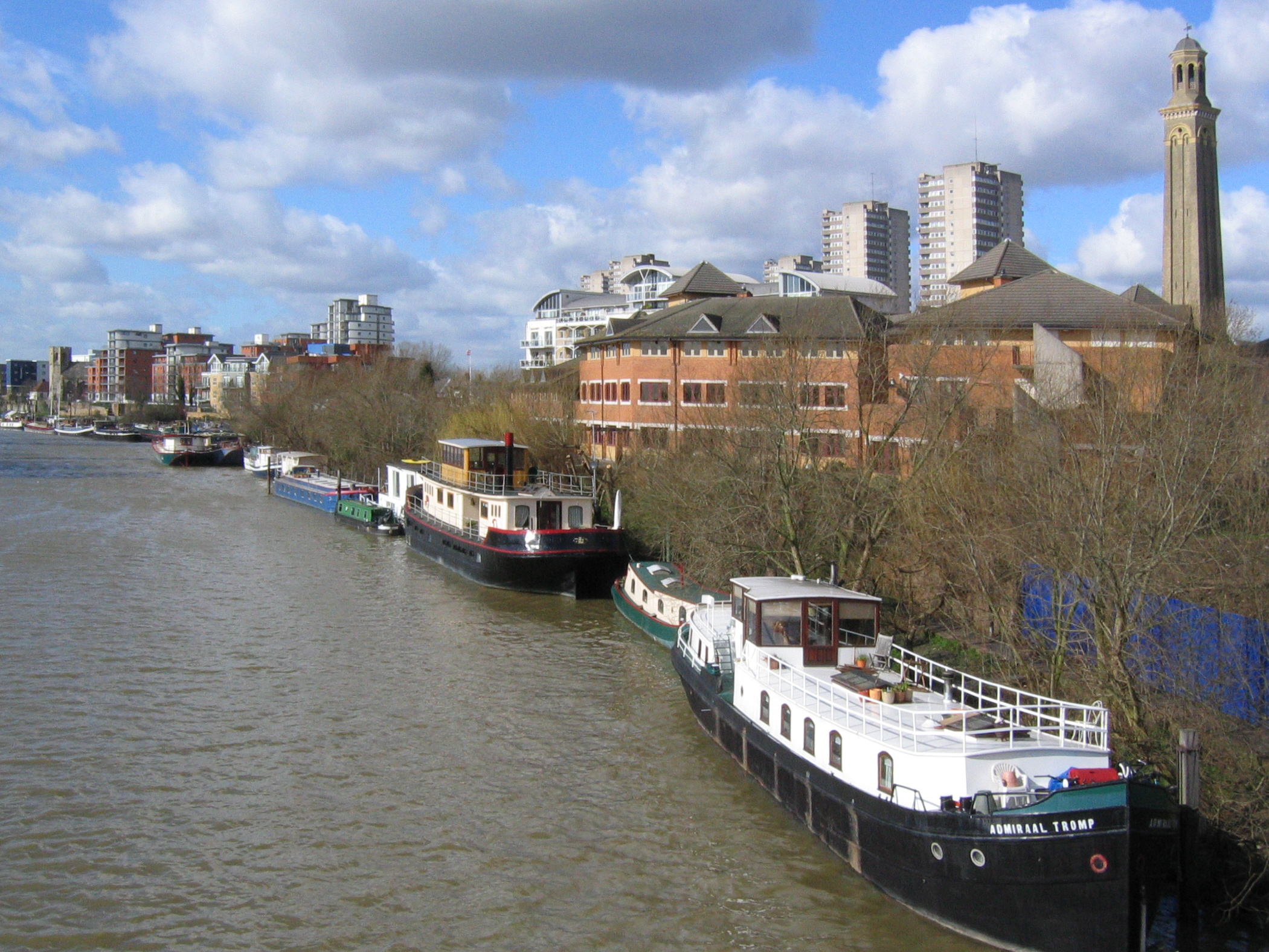 Houseboats on the Thames at Brentford, photo taken from Kew Bridge. This photo was on Wikipedia and is being moved to the Commons by its author.